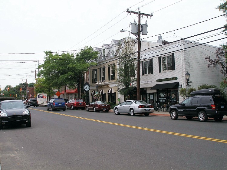 Boston Post Road, retail district in Darien, Connecticut.